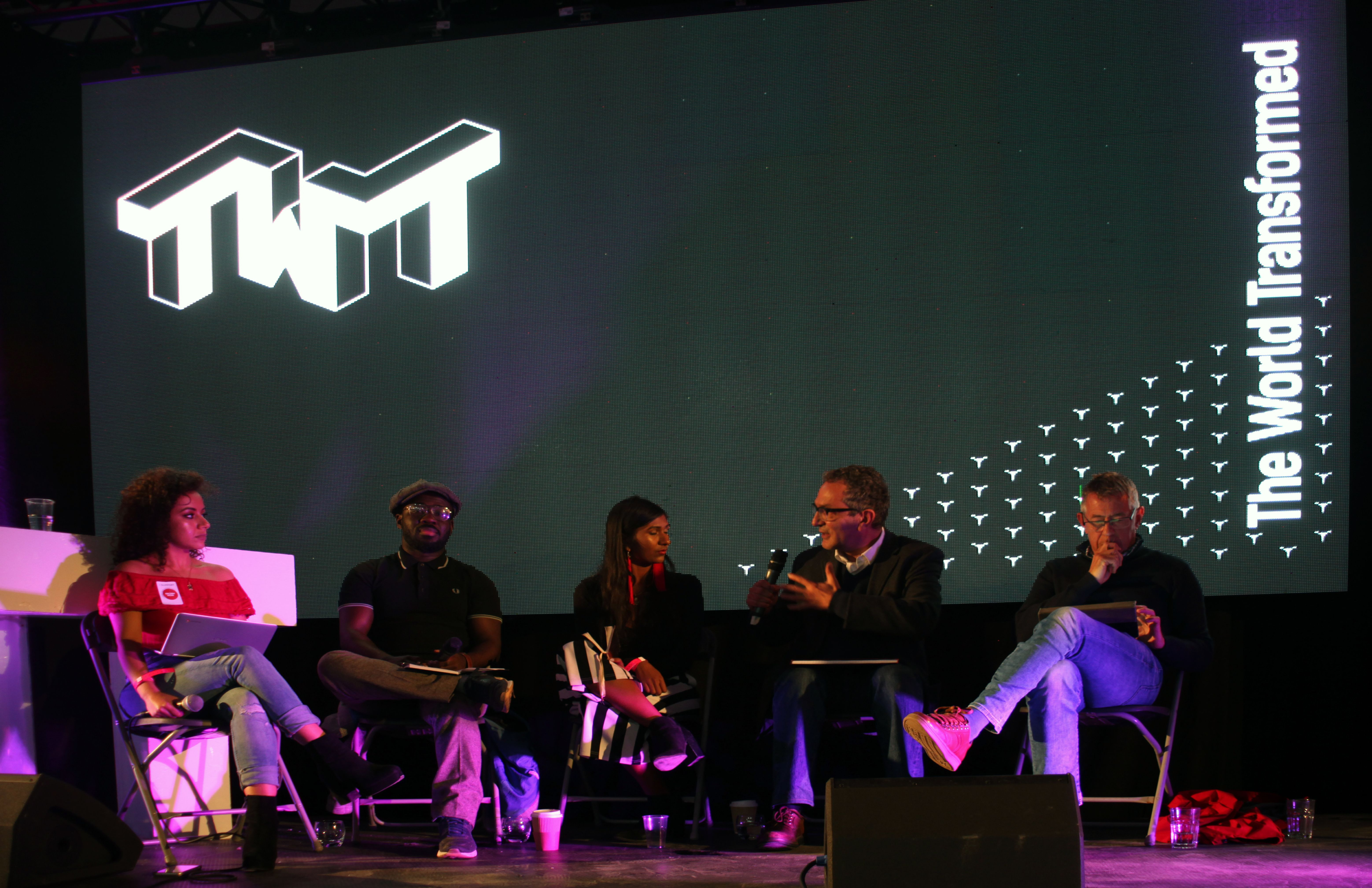 The World Transformed 2018 in Liverpool